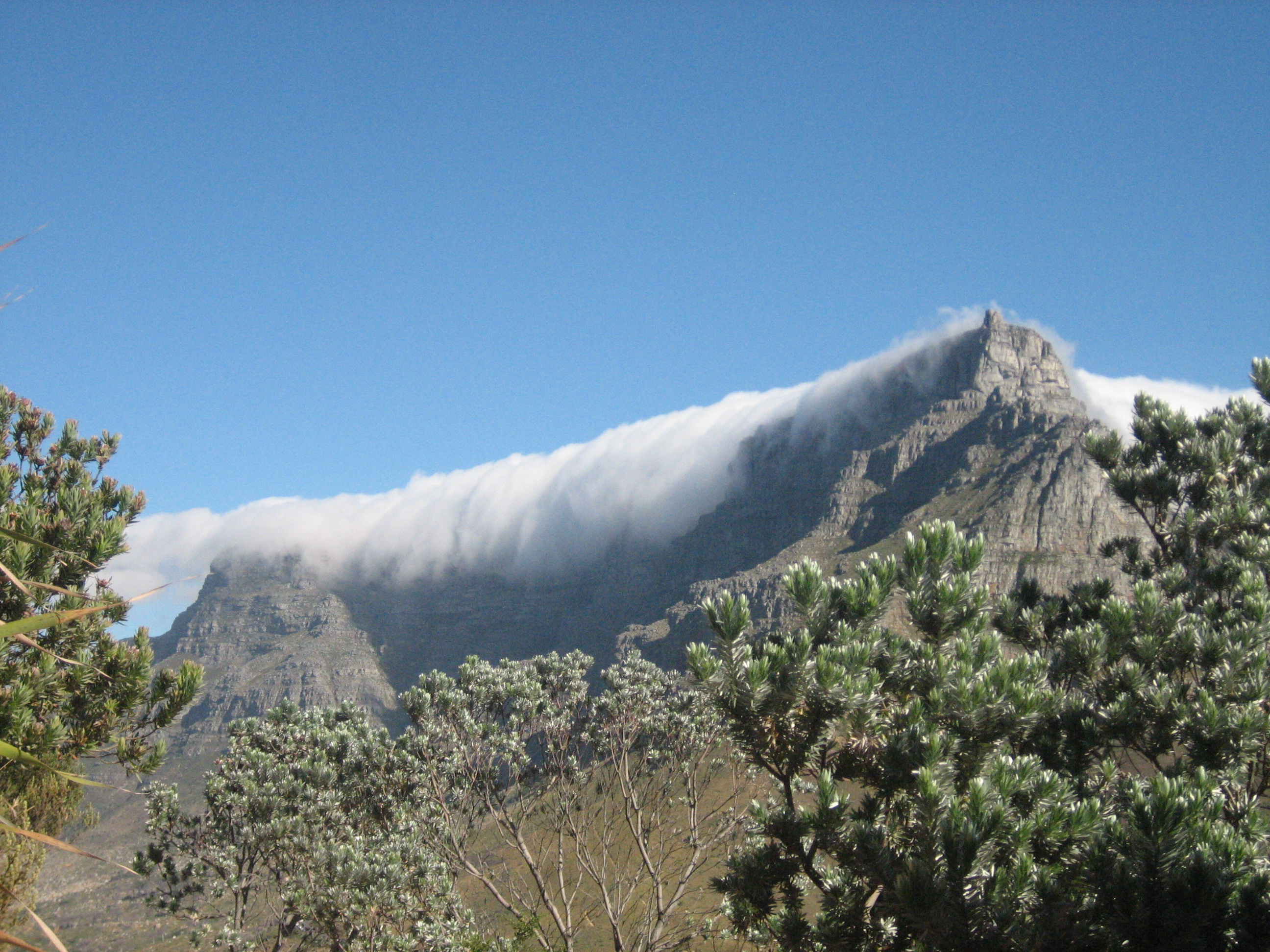 "Tablecloth" effect at the Table mountain, Cape Town, South Africa